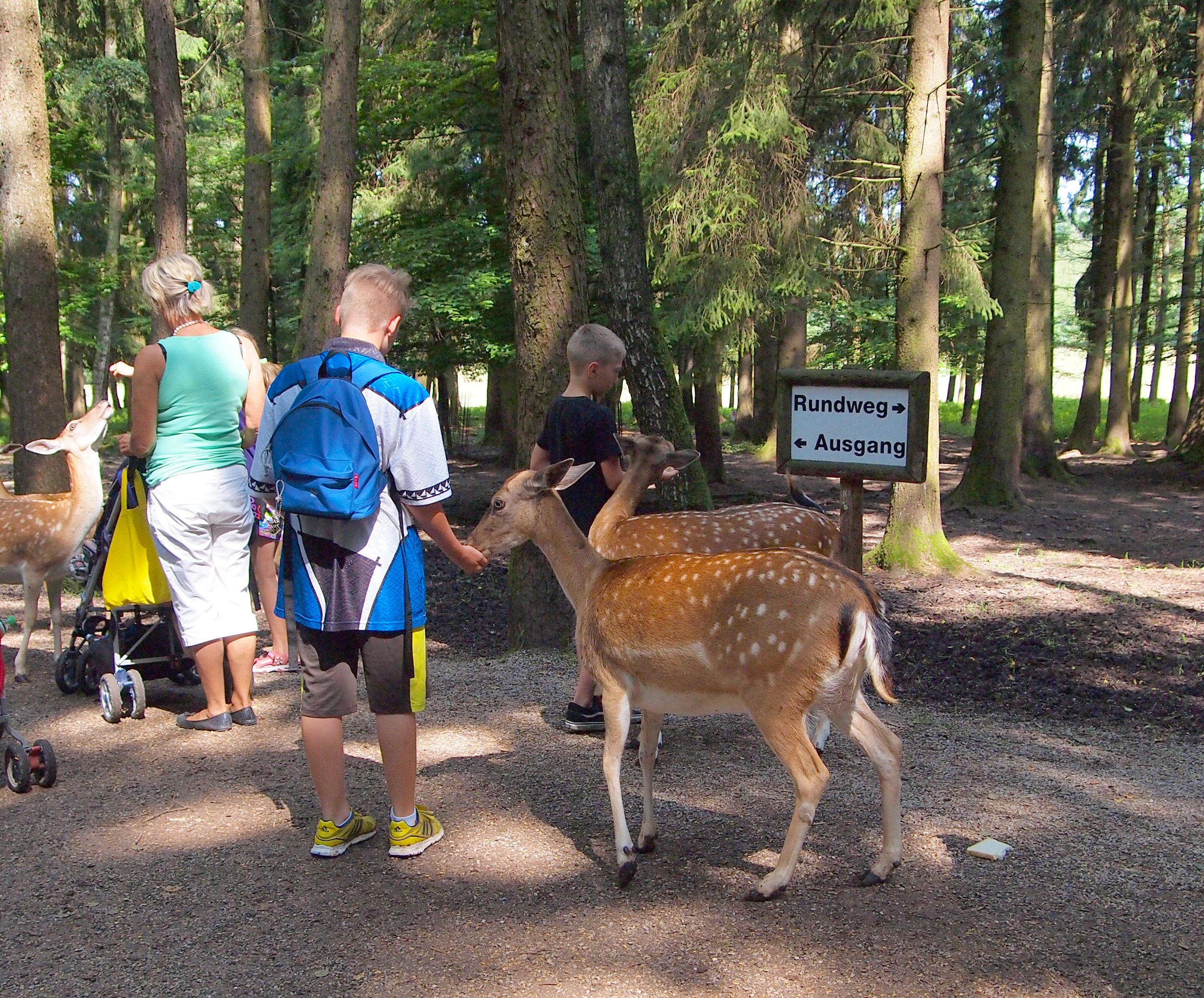 A person feeding animal at Wildpark Poing. This photograph was taken with a Olympus E-PL1.